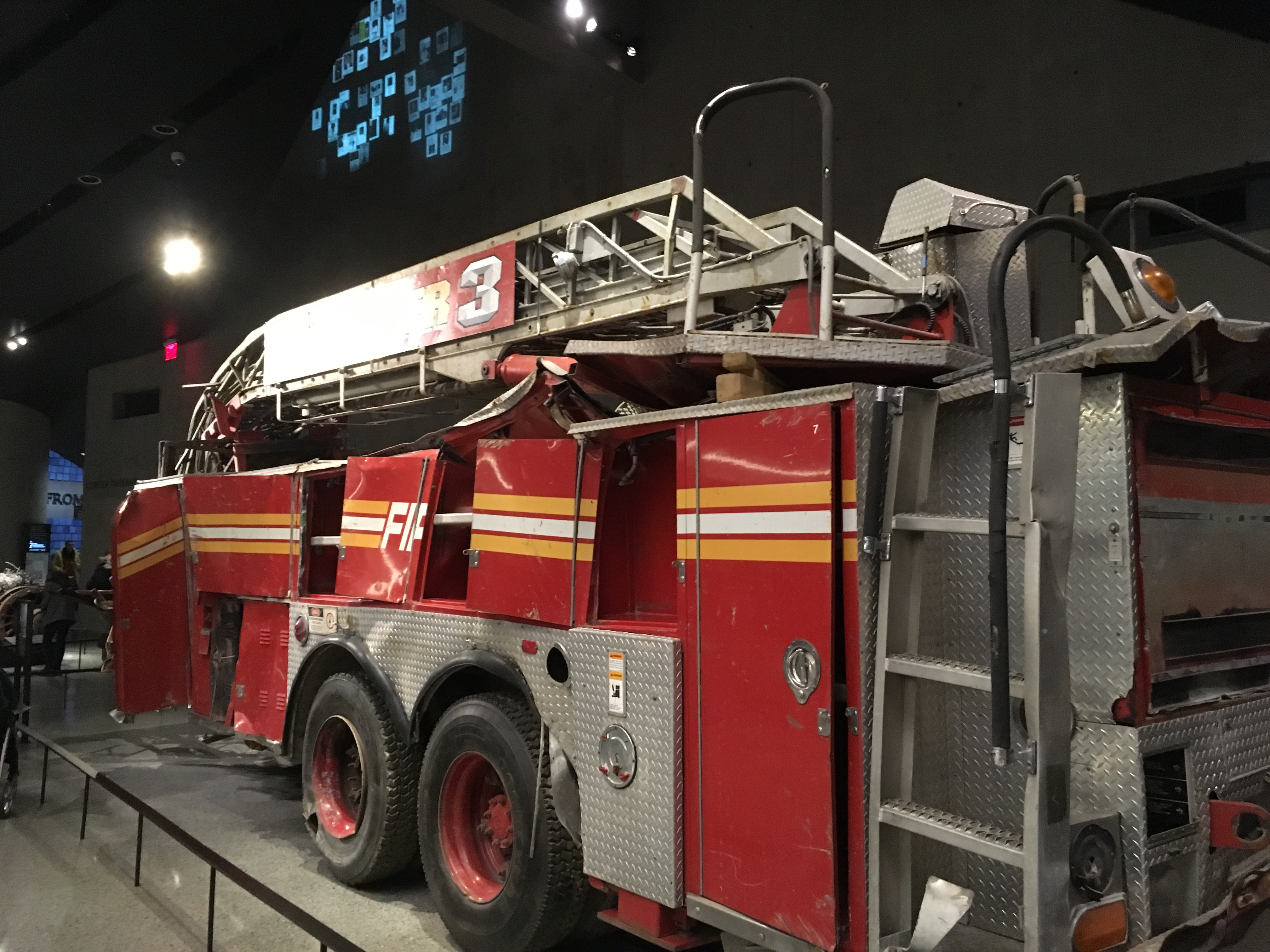 Fire engine destroyed in the September 11 attacks in New York City, New York